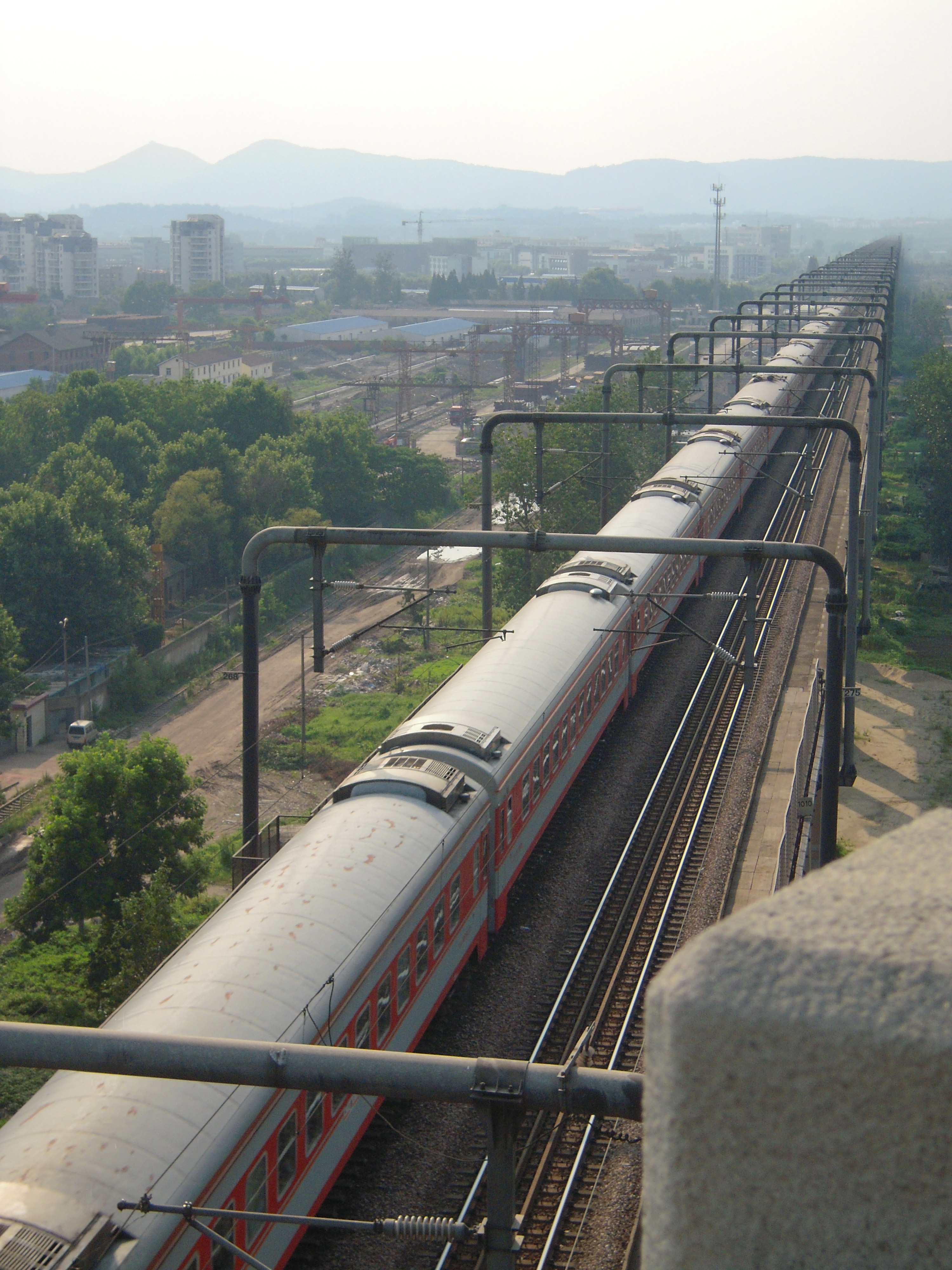 Train passes Nanjing Yangtze River Bridge